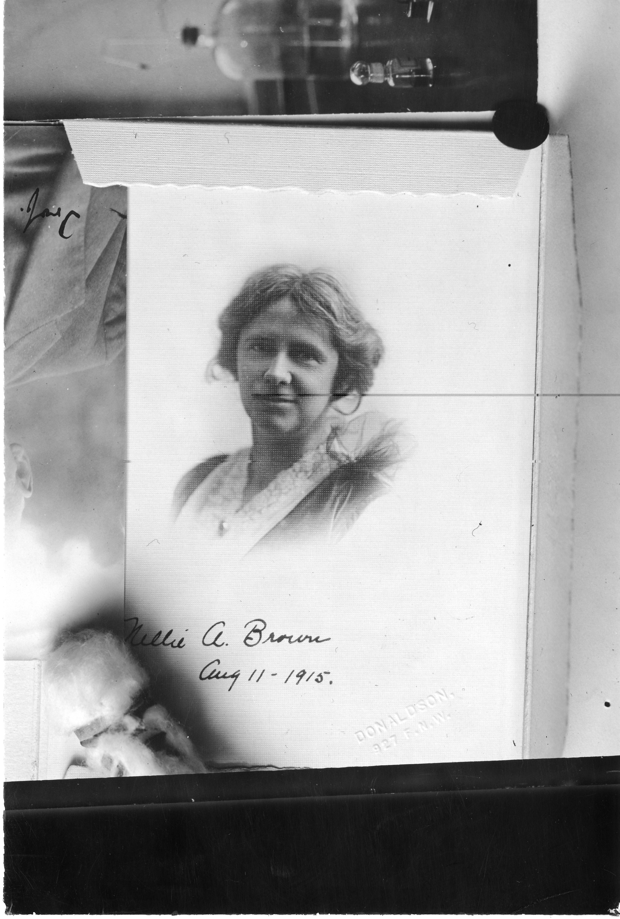 Description: A plant pathologist, Nellie A. Brown (1876-1956) was a member of Torrey Botanical Club while doing postgraduate work at University of California. She began working for U.S. Department of Agriculture, Bureau of Plant Industry, in the 1910s, and conducted research there for 35 years. With C.O. Townsend, she was co-discoverer of the organism responsible for crown gall. Creator/Photographer: Unidentified photographer Medium: Black and white photographic print Persistent URL: Repository: Smithsonian Institution Archives Collection: Accession 90-105: Science Service Records, 1920s – 1970s - Science Service, now the Society for Science & the Public, was a news organization founded in 1921 to promote the dissemination of scientific and technical information. Although initially intended as a news service, Science Service produced an extensive array of news features, radio programs, motion pictures, phonograph records, and demonstration kits and it also engaged in various educational, translation, and research activities. Accession number: SIA2007-0423